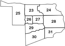 West side of Chicago, adapted from the Community areas of Chicago map. Created in Macromedia Flash 4. PNG-8 Index transparency.